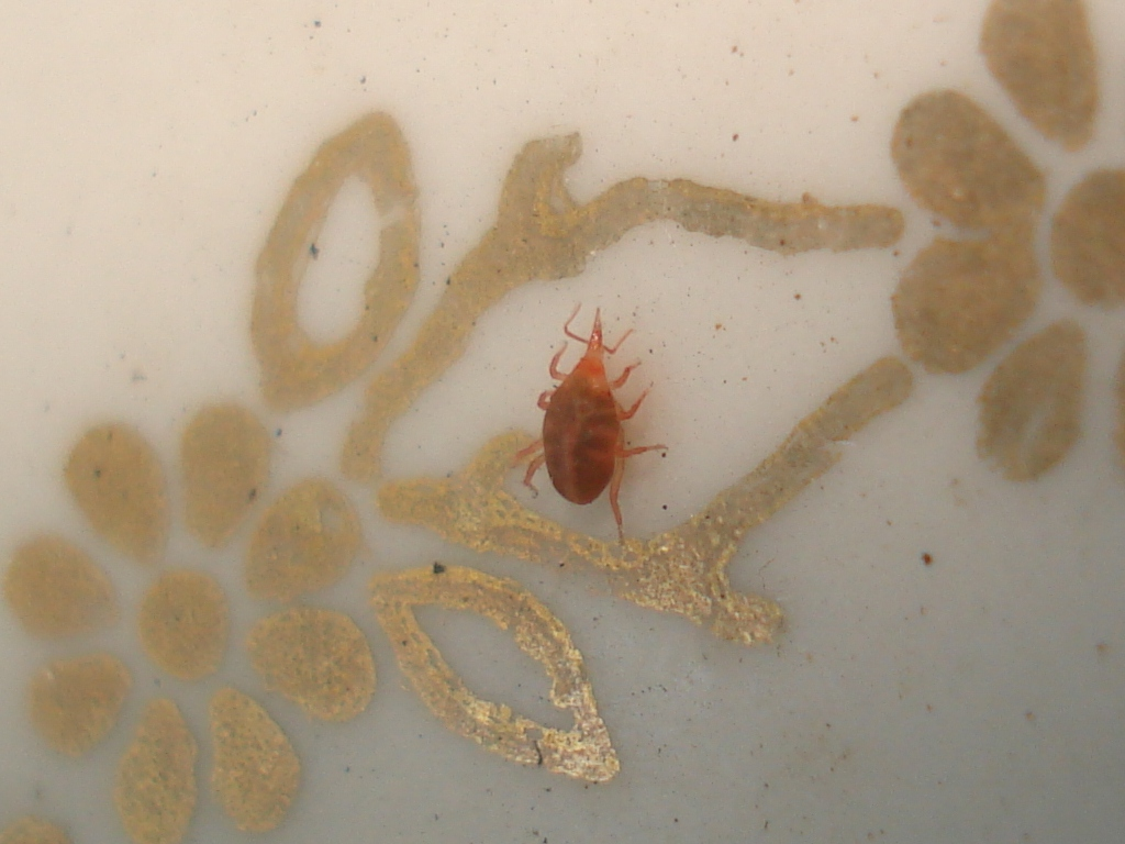 Bdellidae sp.